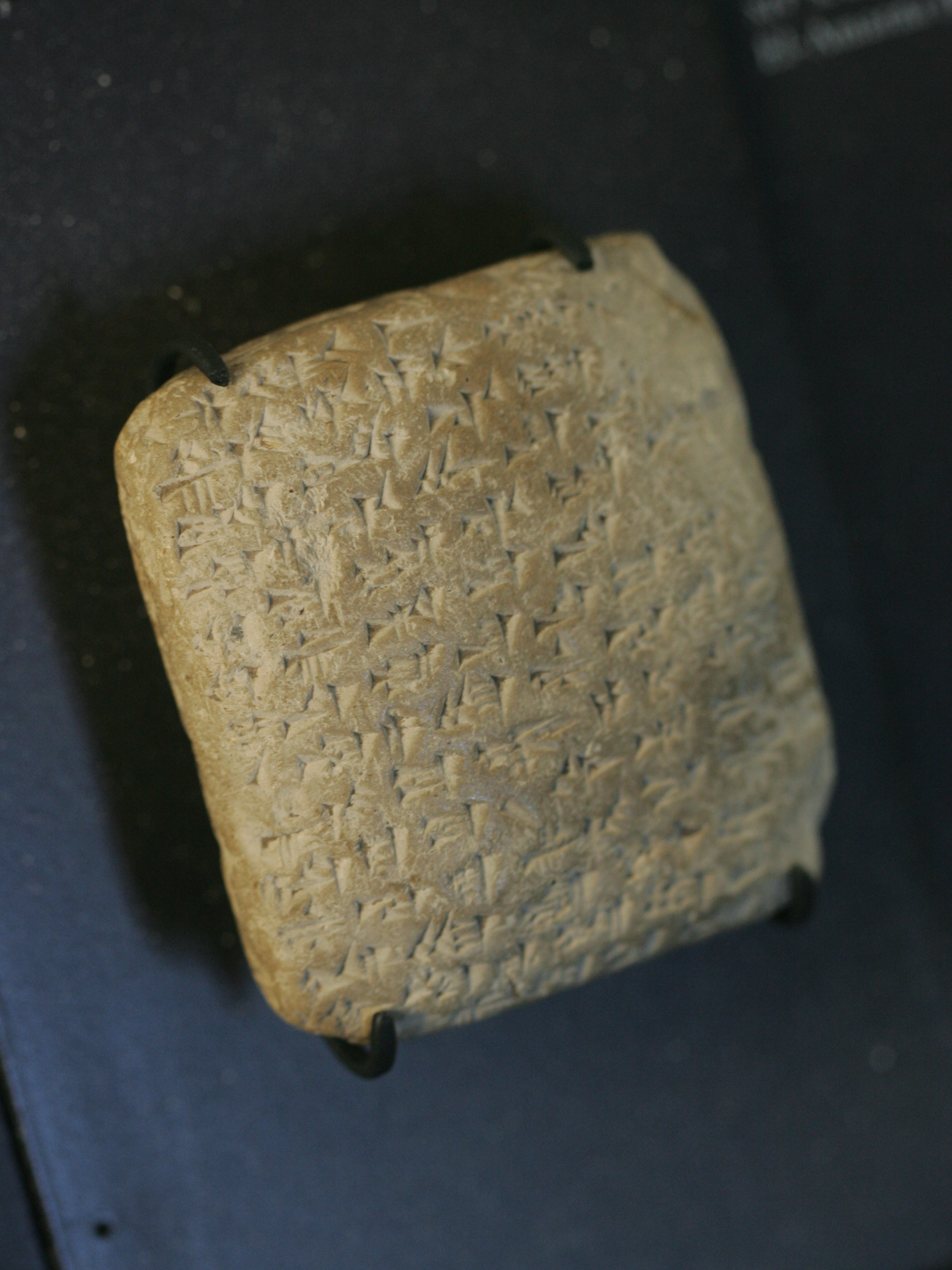 Amarna Letters Letter of Biridiya, prince of Megiddo, to the king of Egypt; subject of harvesting by corvee workers in the city of Nuribta. Terra cotta Current location (Inventory)Louvre Museum Native nameMusée du LouvreLocationParisCoordinates48° 51′ 37″ N, 2° 20′ 15″ E Established1793Website control : Q19675 VIAF: 257711507 ISNI: 0000 0001 2260 177X ULAN: 500125189 LCCN: n80020283 NLA: 35912436 WorldCat Sully, Rez-de-chaussée, Levant, Salle D, Vitrine 4 : L'âge du bronze récent 1550 - 1150 avant J.-C.Accession numberAO 7098. Also known as EA 365.Credit lineAcquired in 1918Referenceslouvre.frSource/PhotographerRama